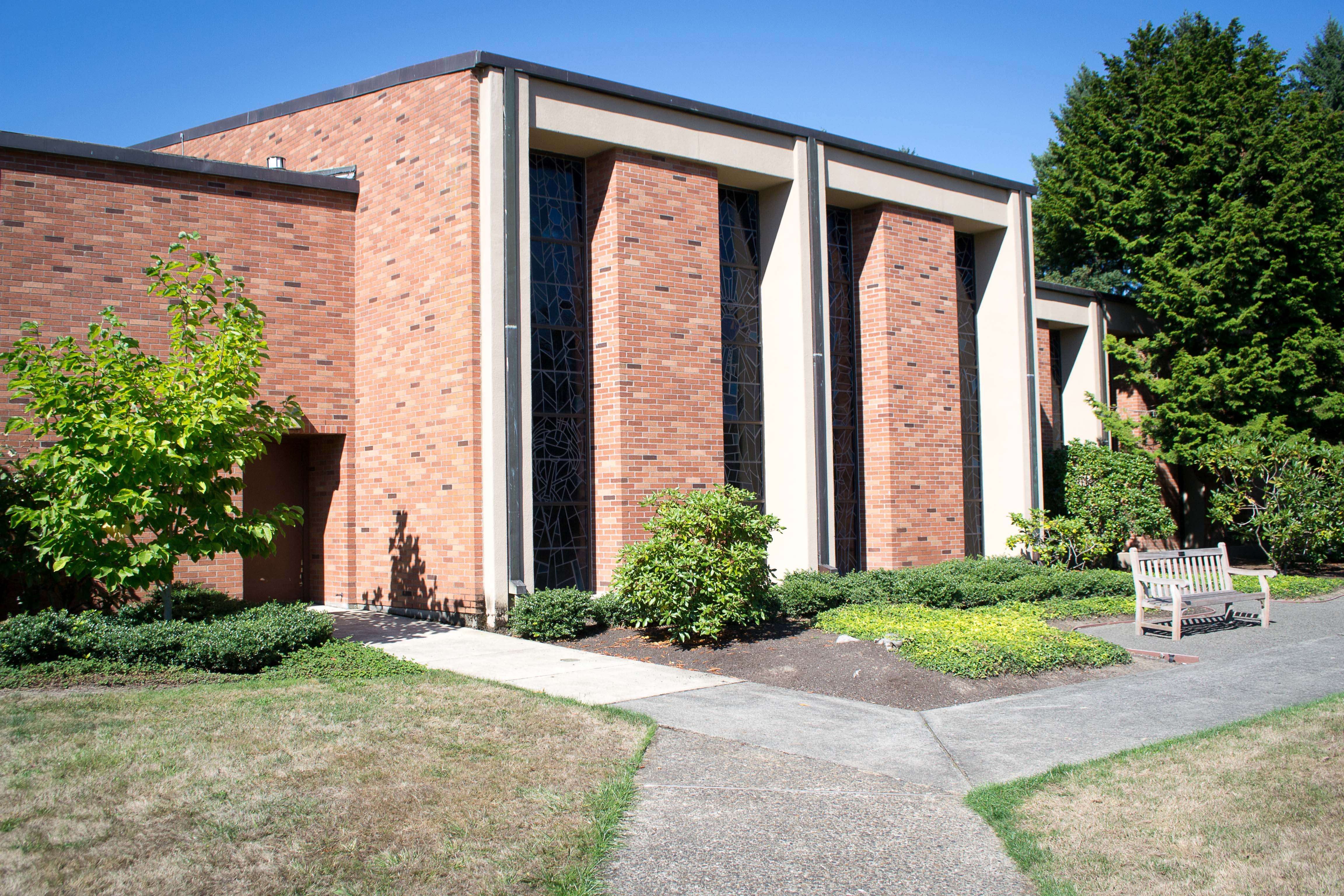 St. Anne's Chapel at Marylhurst University